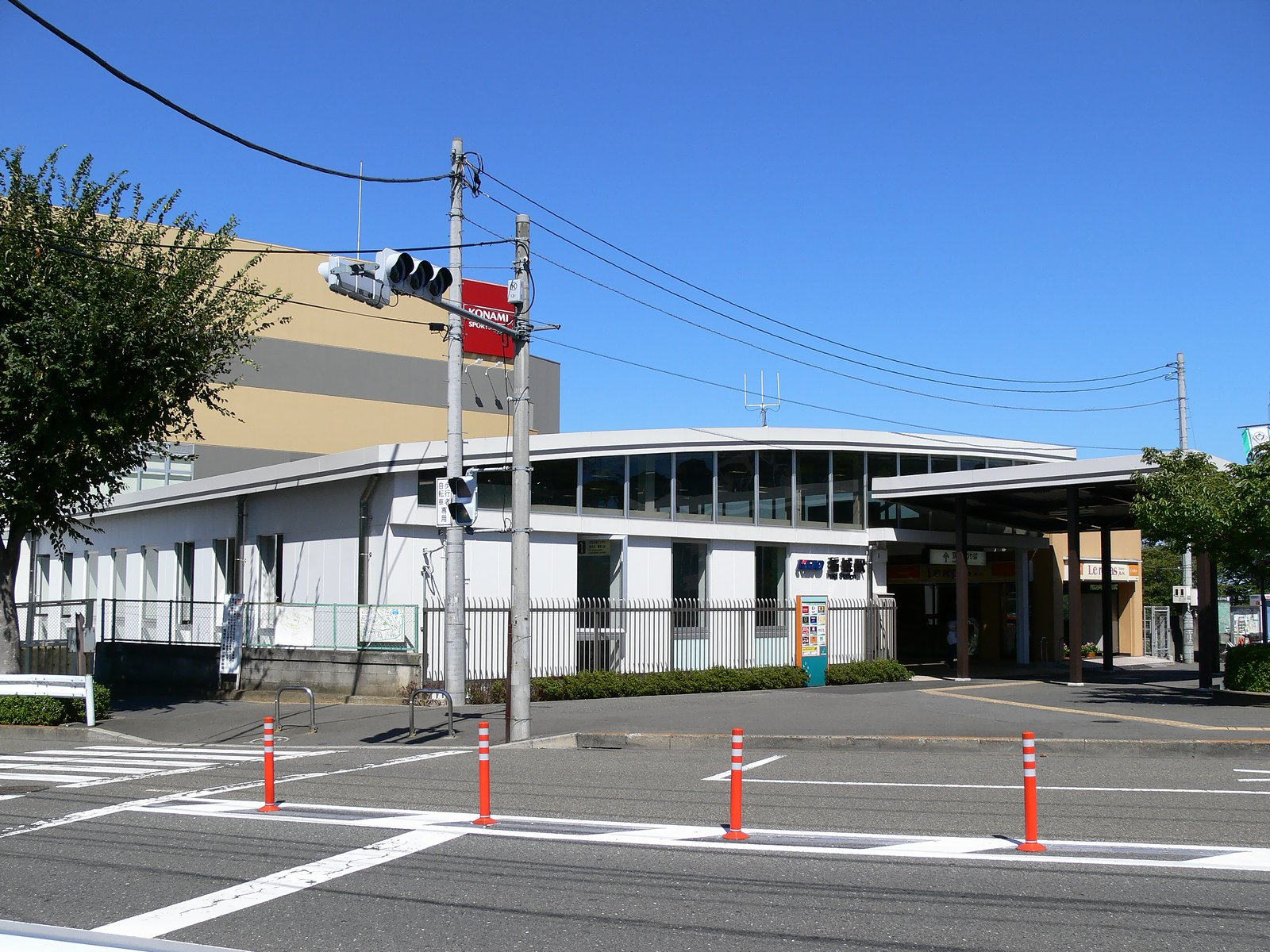 Inagi Station Building on Keio Sagamihara Line in Inagi, Tokyo, Japan.